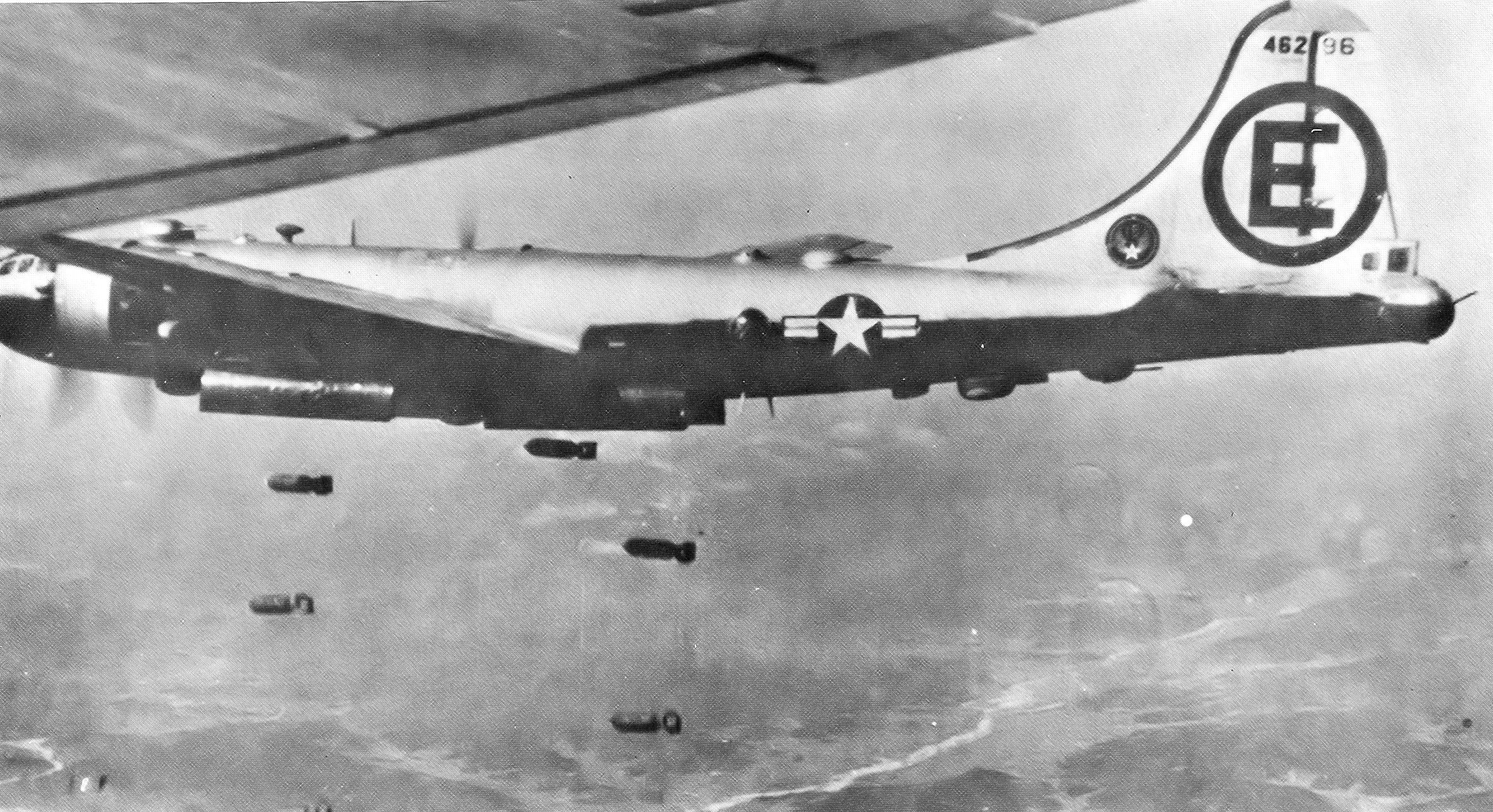 22d Bombardment Group Boeing B-29A-65-BN Superfortress 44-62196 "Never Happen", on a mission over North Korea, July 1950. Sent to McClellan AFB Mar 1953, off inventory as surplus Aug 1955.